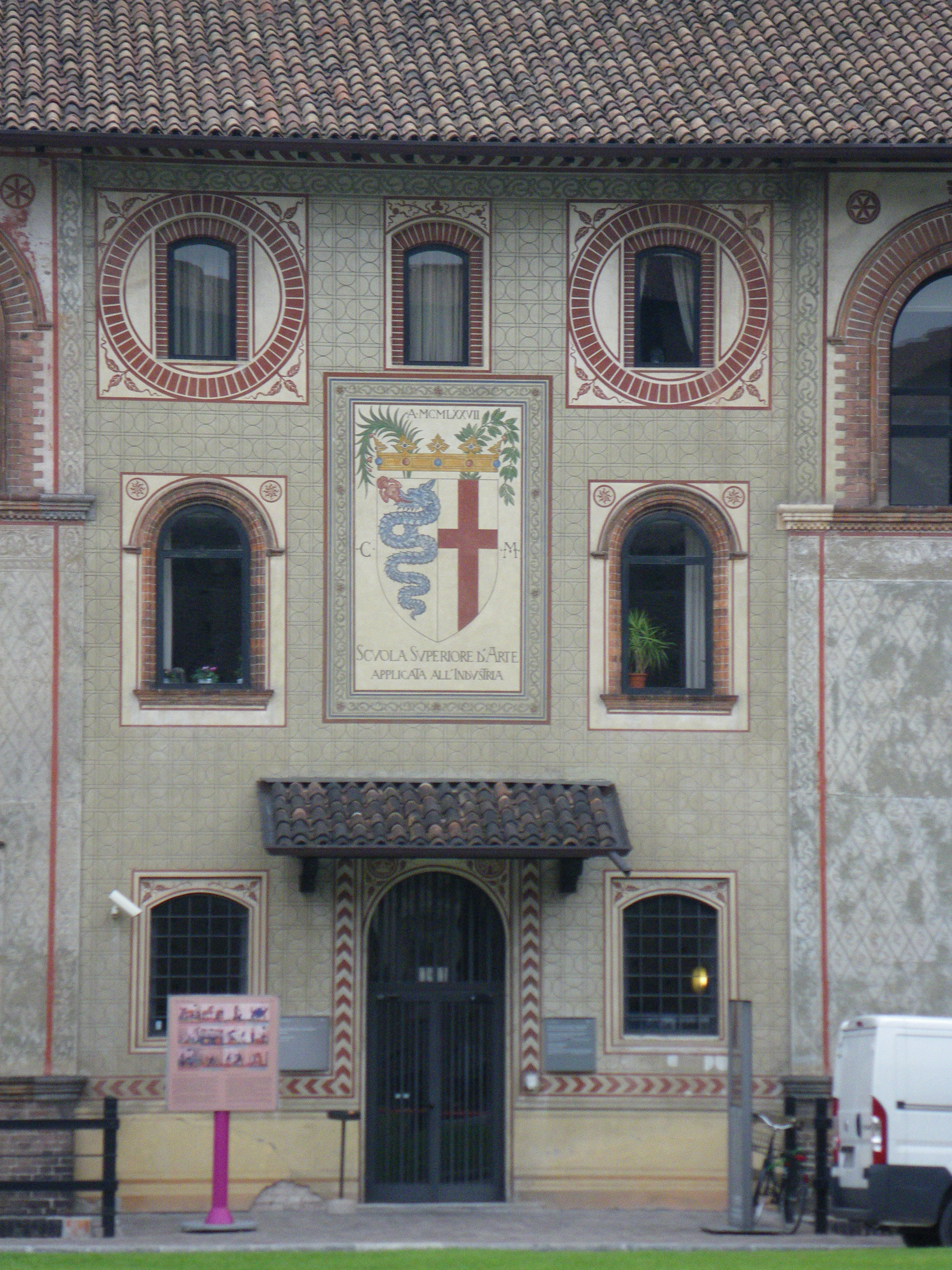 Milan, Italy